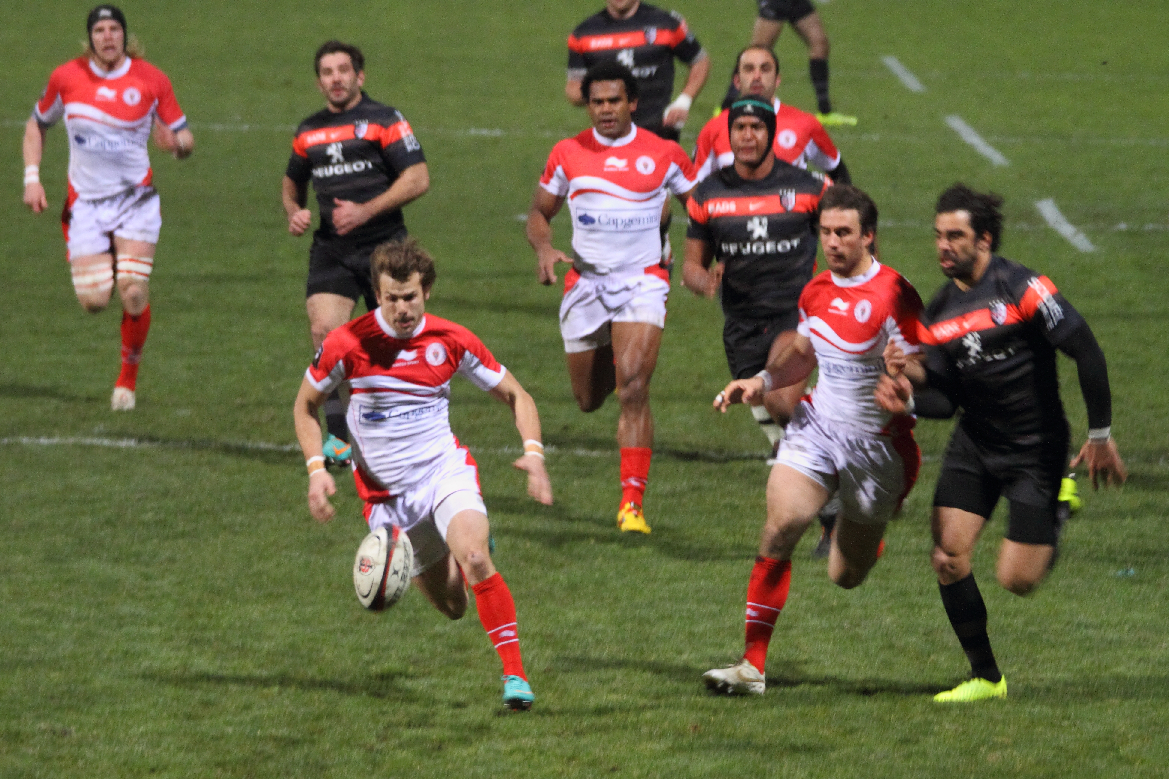 Top 14 — 8 September 2012, Stade Ernest-Wallon. Match between: Stade toulousain — Biarritz Olympique